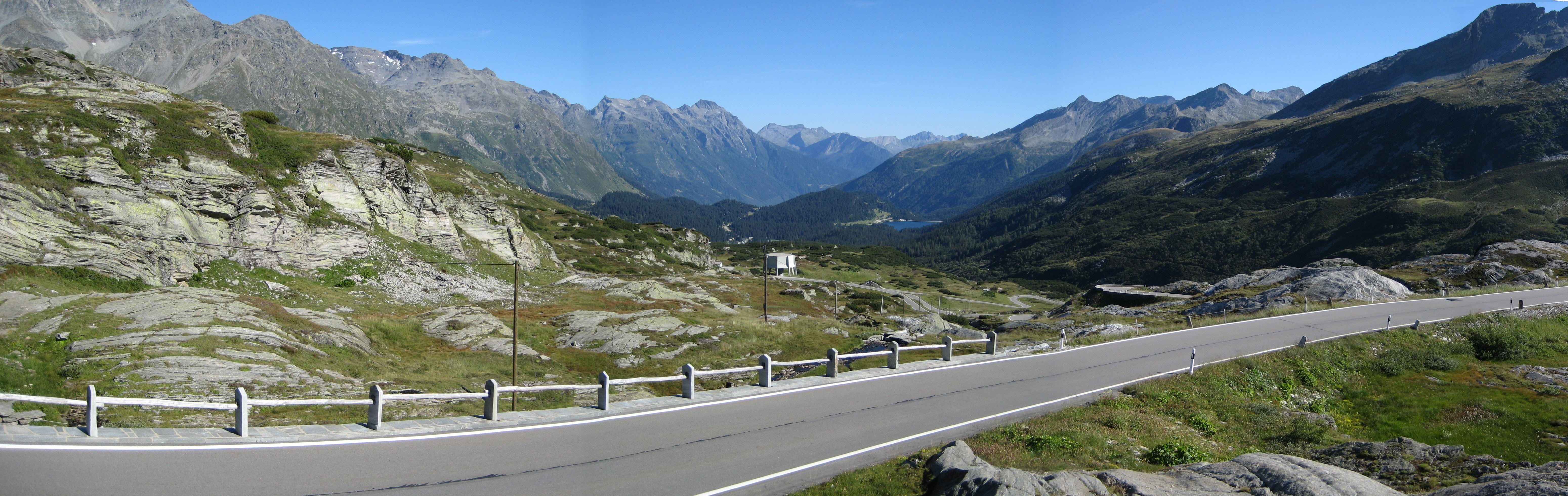 View from the San Bernardino Pass direction south Panorama Stitch